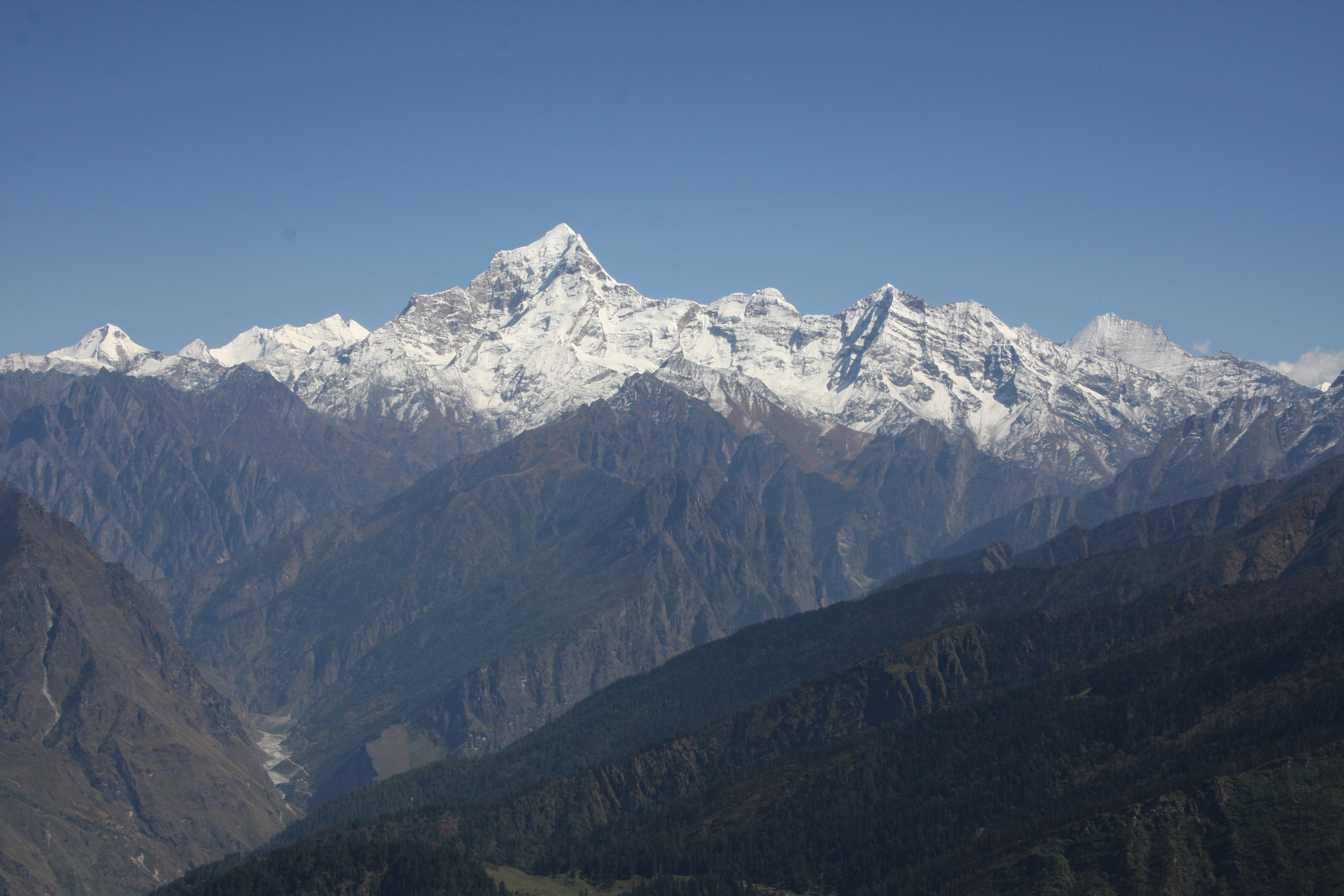 Dunagiri (7066 m), Indian Himalayas